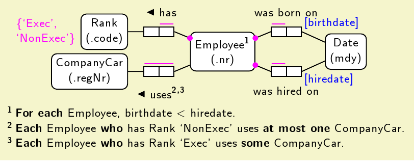 Example of an Object-Role-Model diagram. Created with my LaTeX package tkz-orm (